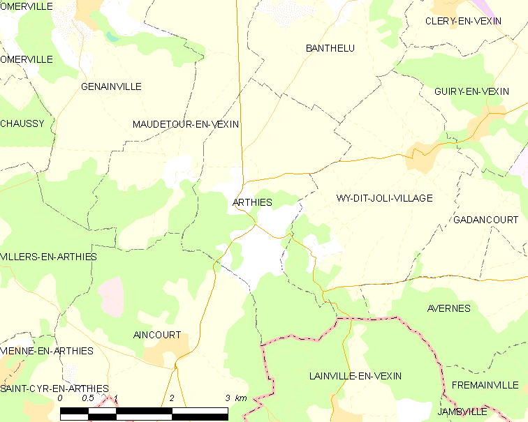 Map of French municipality Arthies